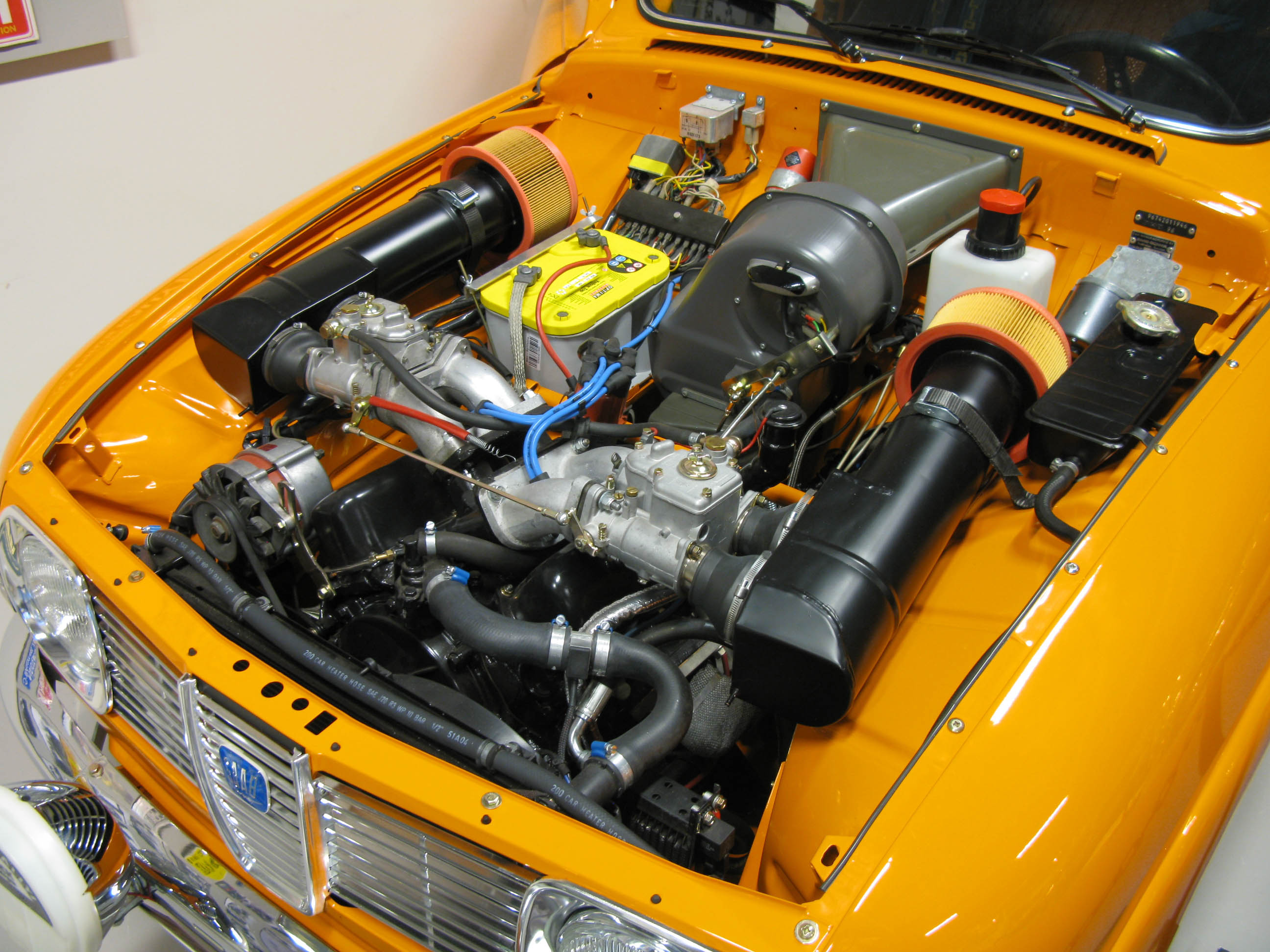 Saab 1840cc V4 engine with twin Weber 45 DCOE carbs. Location: Bil & Teknikhistoriska Samlingarna i Köping